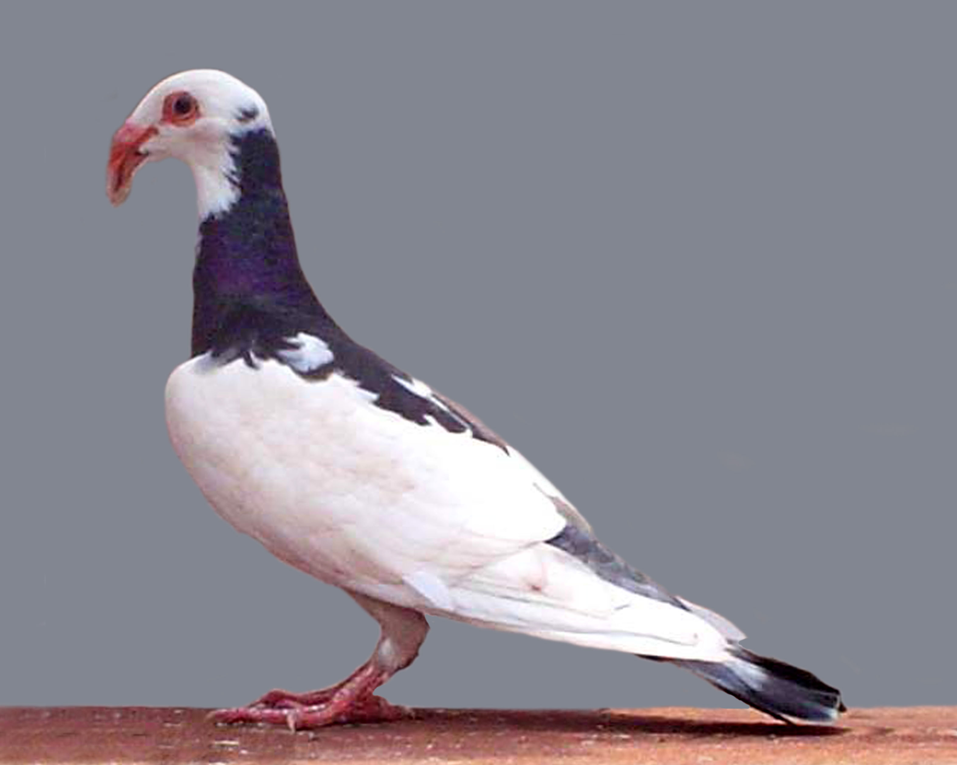 Scandaroon (Blue Pied)